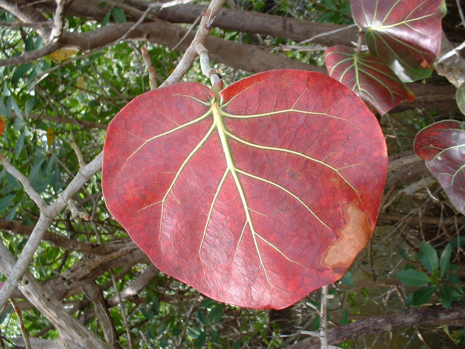 Leaf of the sea-grape, Coccoloba uvifera, photographed at Jack Island, Florida Atlantic coast